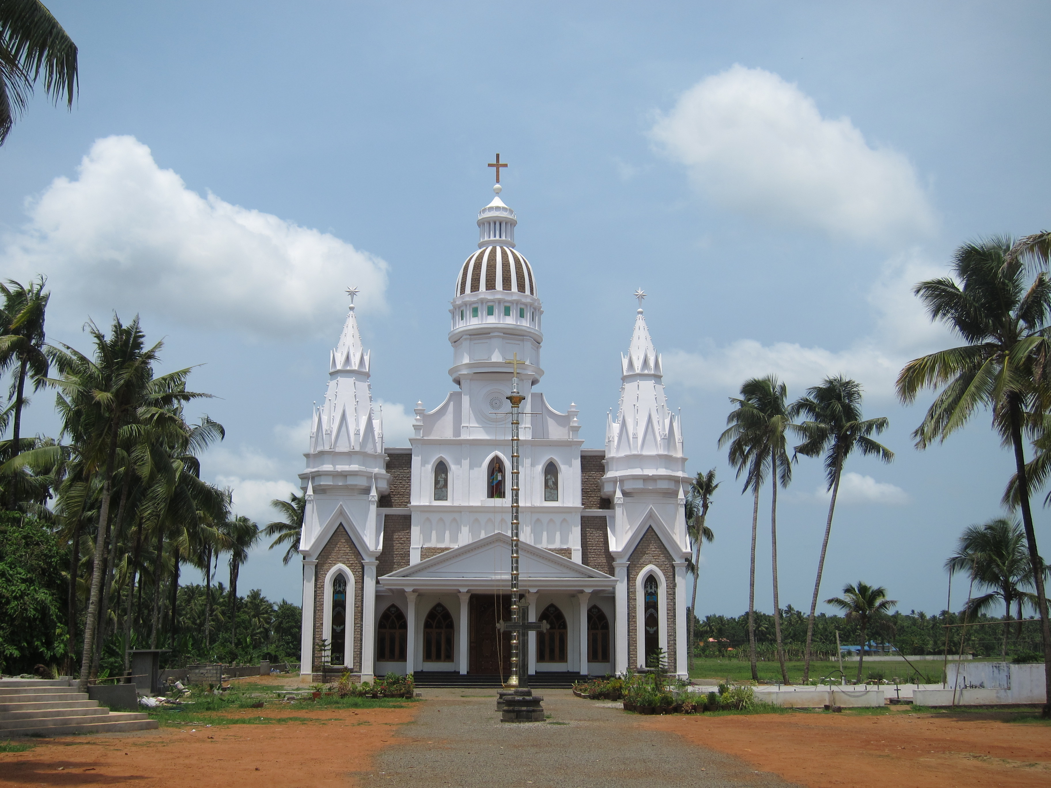 St: John's Church, Kuthirathadam Puthenchira Forane, Irinjalakuda Diocese, Thrissur Arch-Diocese, Thrissur District 7 k.m away from Irinjalakuda, 17 k.m away from Chalakudy സെന്റ് ജോൺസ് ചർച്ച്, കുതിരത്തടം പുത്തൻചിറ ഫൊറോന, ഇരിങ്ങാലക്കുട രൂപത, തൃശൂർ അതിരൂപത, ത്രിശൂർ ജില്ല ഇരിങ്ങാലക്കുടയിൽ നിന്ന് 7 കി.മി അകലെ, ചാലക്കുടിയിൽ നിന്ന് 17 കി.മി അകലെ